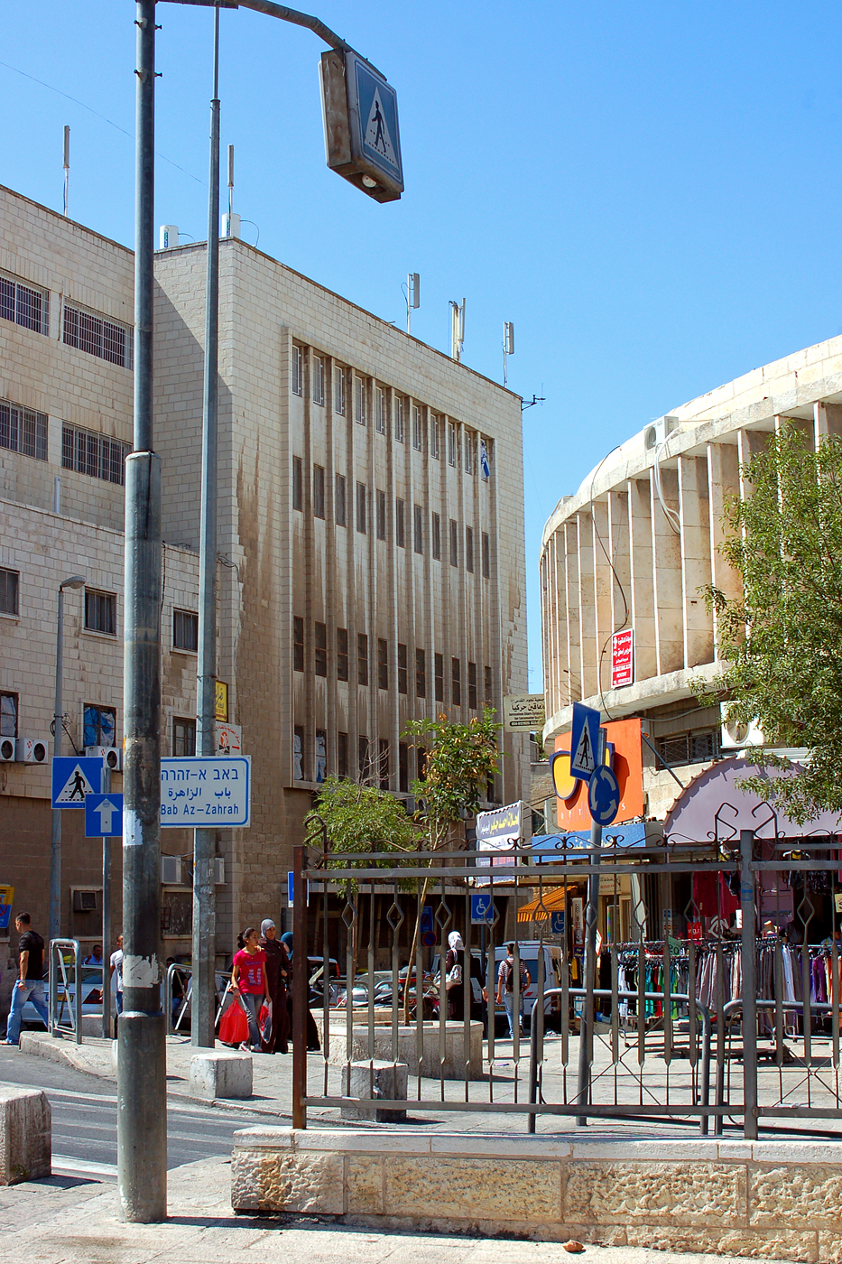 East Jerusalem, corner of Sultan Suleiman and Harun al-Rashid Streets (near Herods Gate), Bab a-Zahara is an Arab neighborhood in East Jerusalem, north of the Old City.